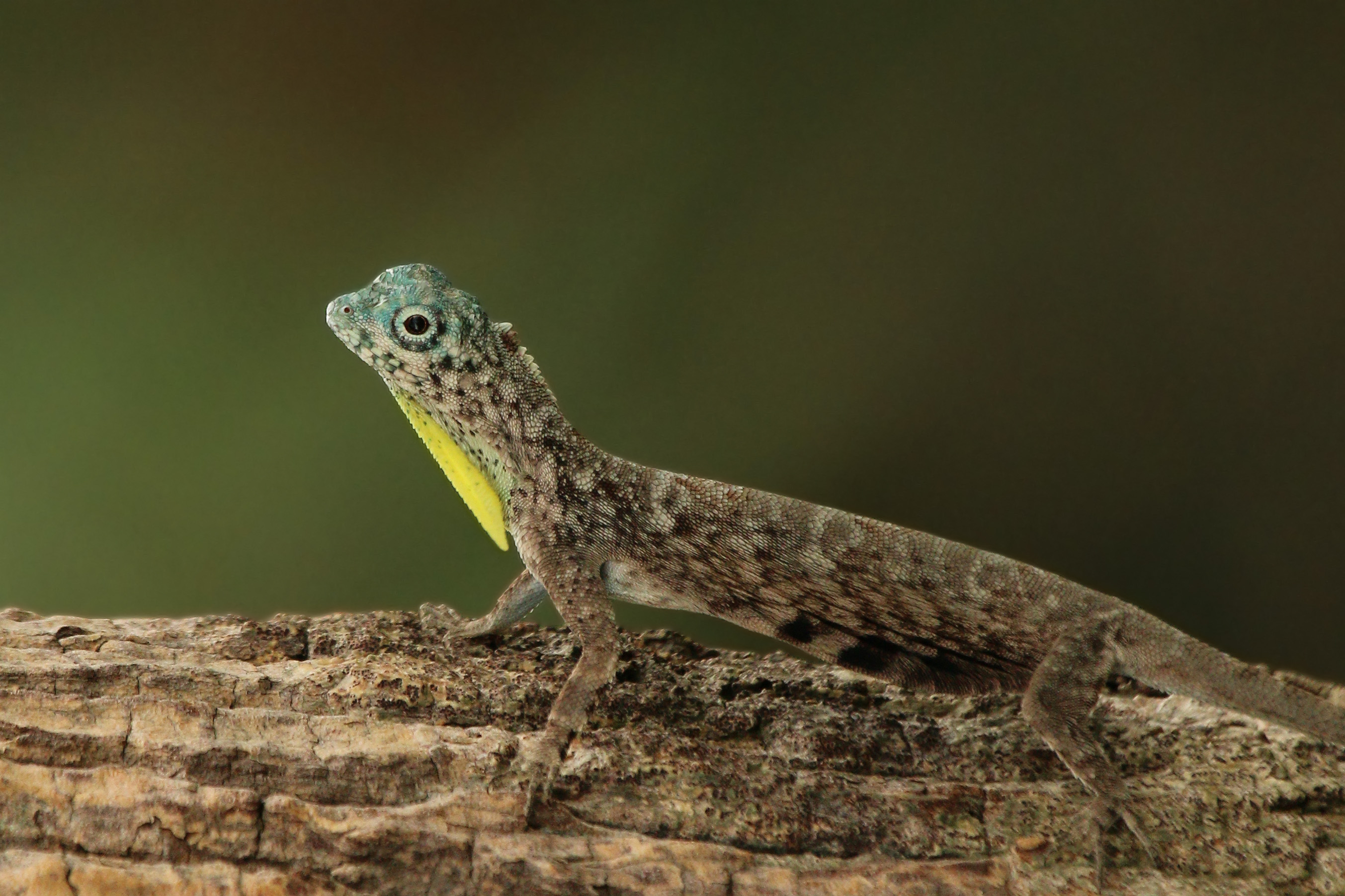 Flying lizard (Draco volans) male, Singapore